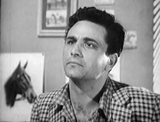 Cropped screenshot of Peter Falk from the television series Decoy.